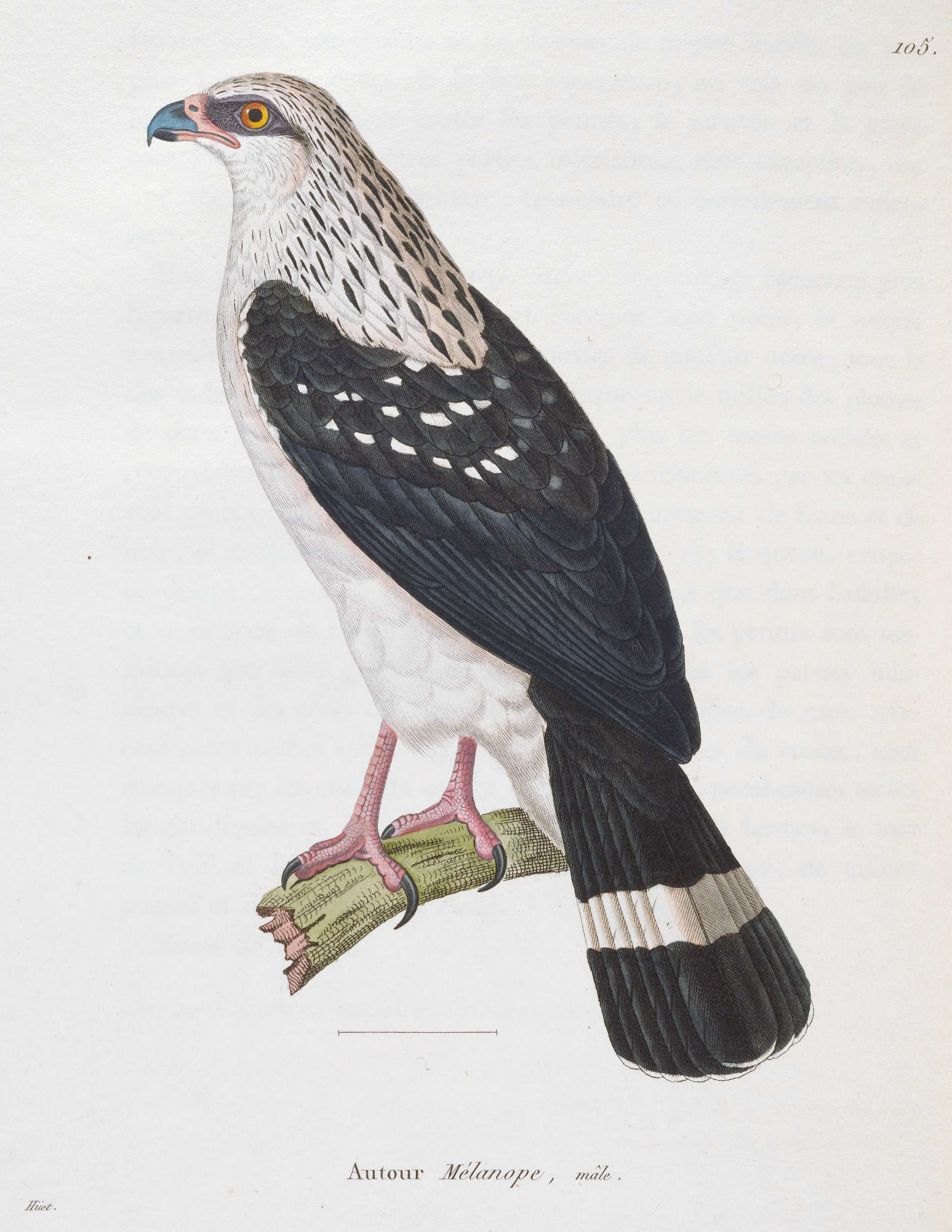 Leucopternis melanops illustration